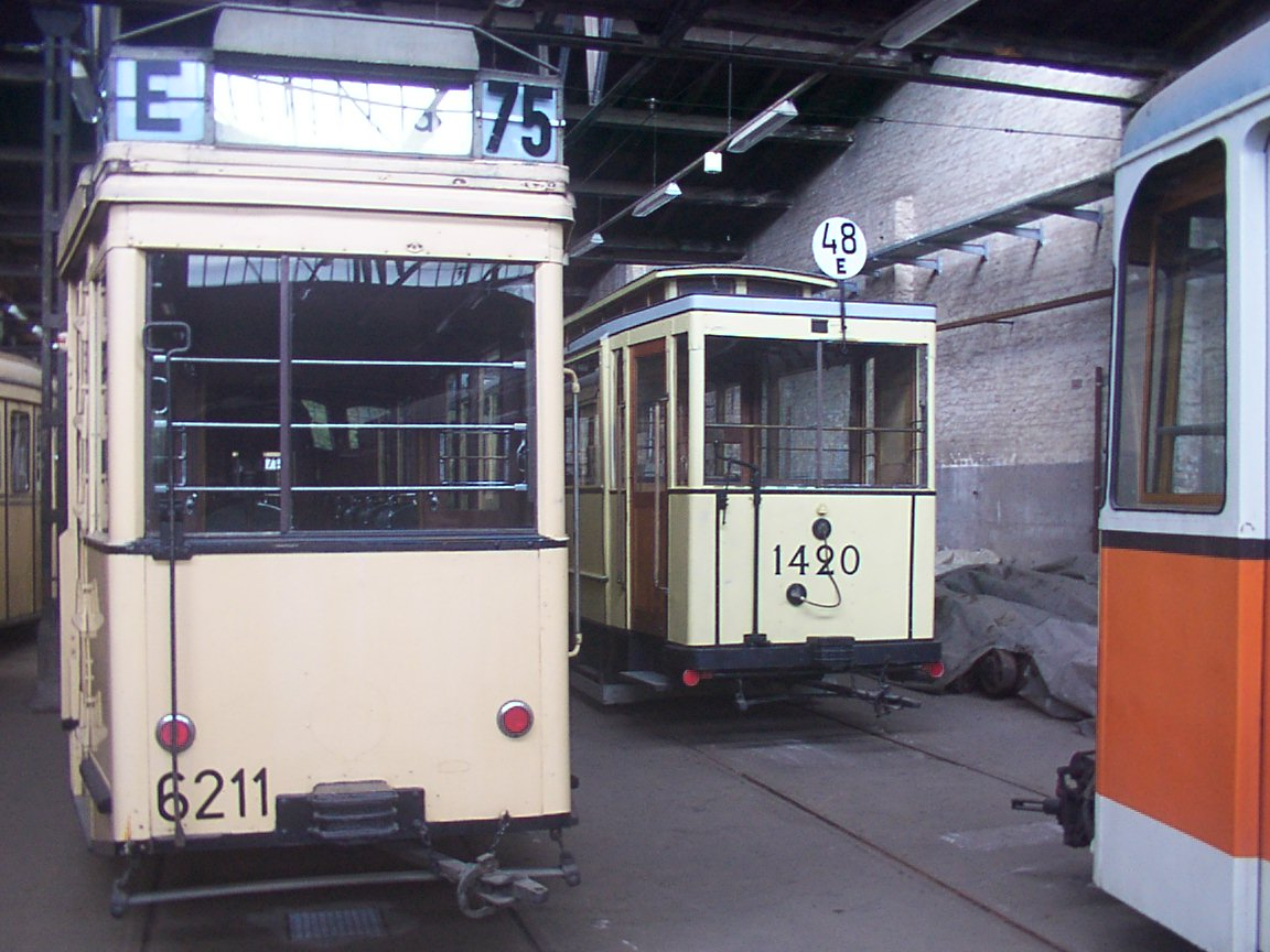 Inside the listed 1901 depot with its wooden roof. The familiar livery of East Berlin's BVB in the 1980s is on the right. Three car Reko units travelled from Friedrichstrasse to here on route 46 and the 22 to Rosenthal until after the Wende, rare use of the older cars in central Berlin at that time. On show here a 1929 articulated tram, 6211 by C&U ,Niesky, and da 1921 trailer unit (no 1420).